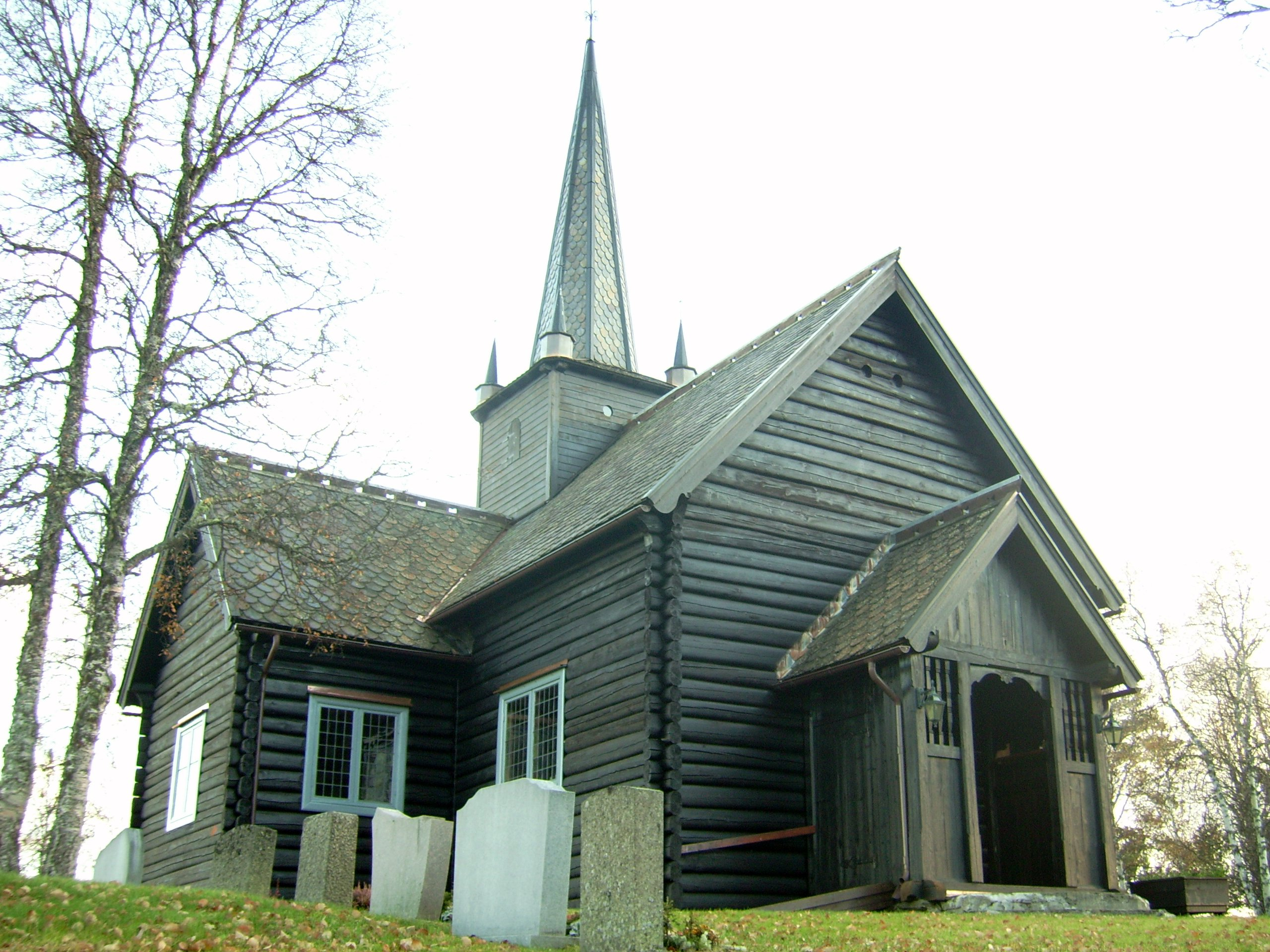 Skåbu church, Nord-Fron, Norway Autocorrected in Picasa